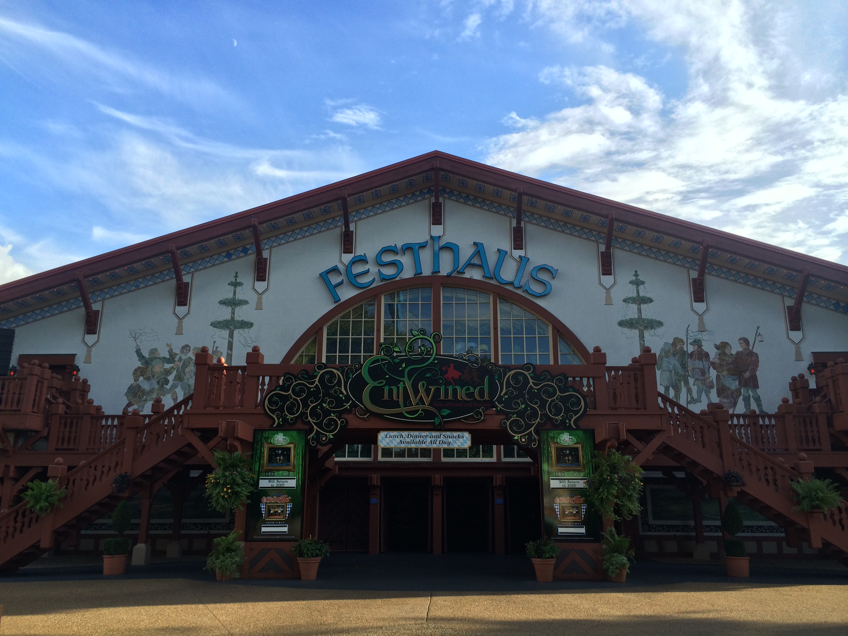 Front view of Das Festhaus